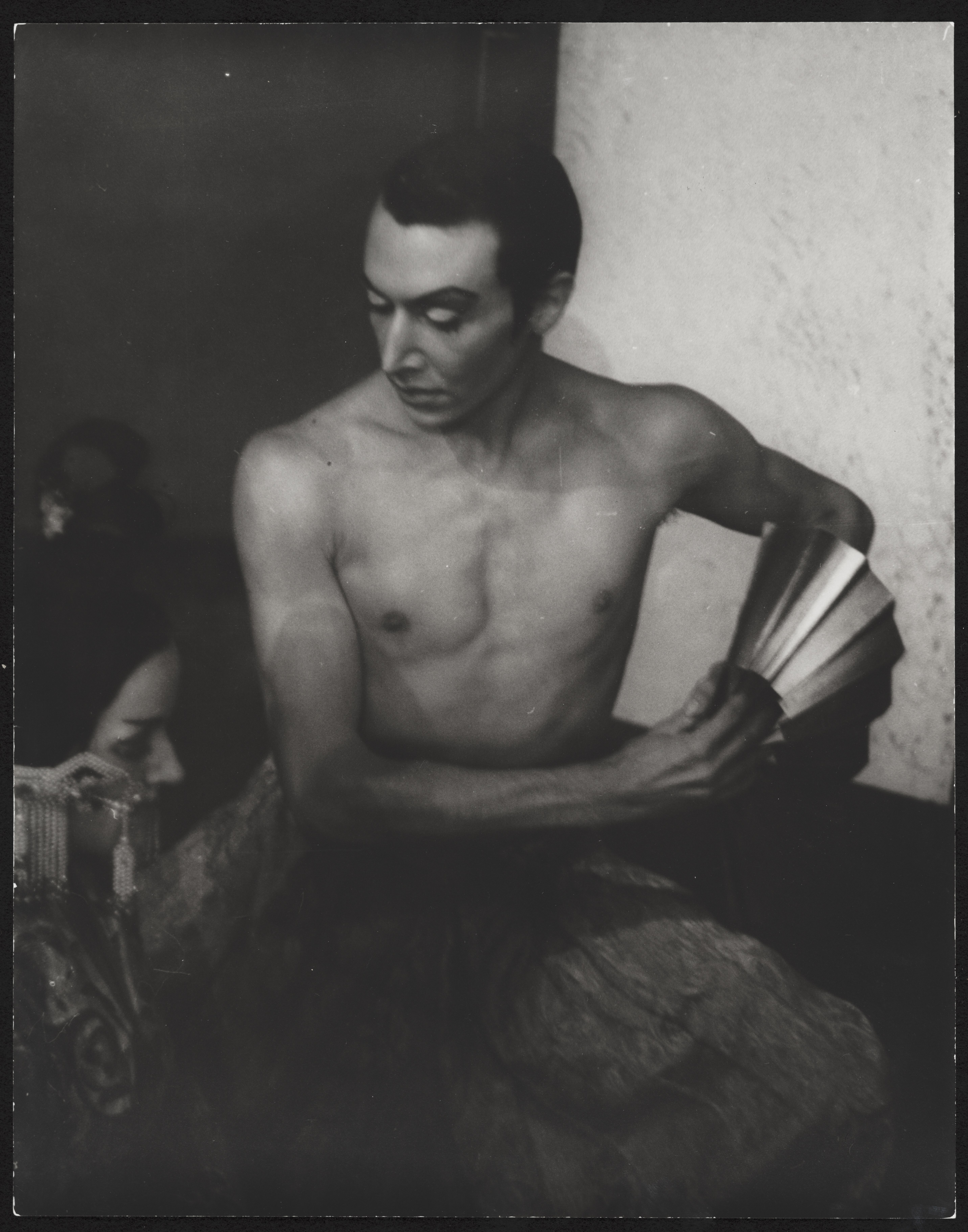 Title: Portrait of Jack Cole Abstract: 1 photographic print : gelatin silver.